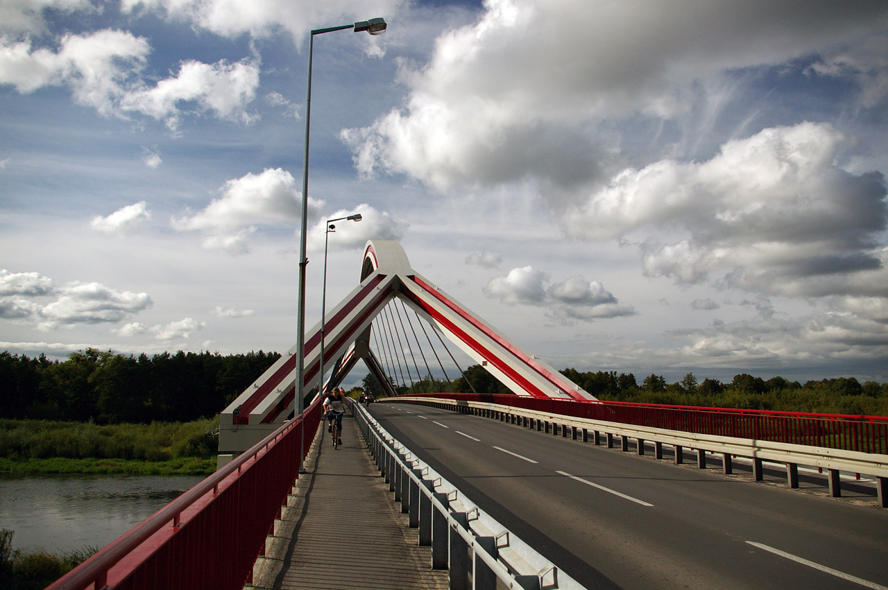 City of Ostroleka (Poland), the Madalinski Bridge.